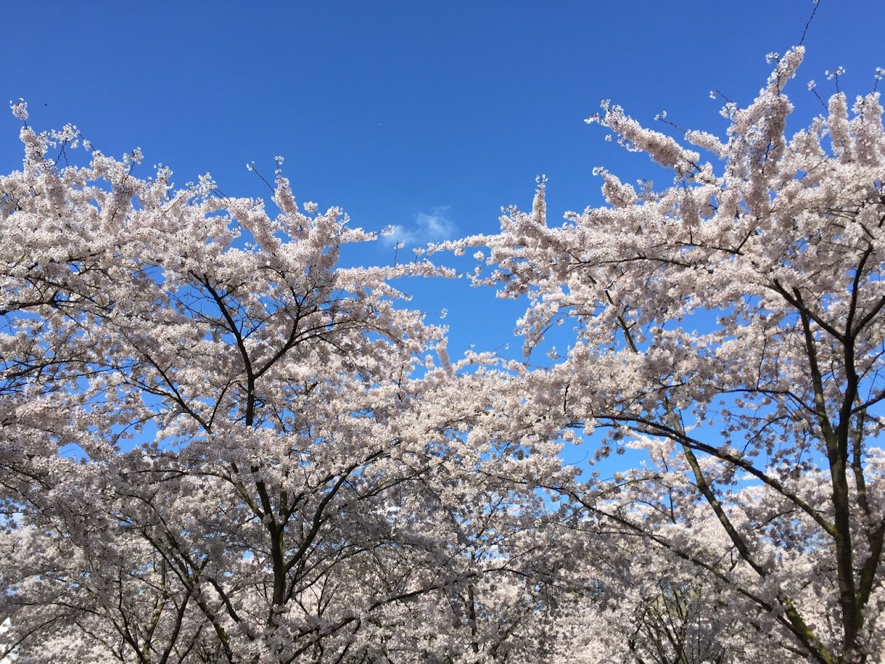 Cherry blossom trees in full bloom in Amstelveen, The Netherlands